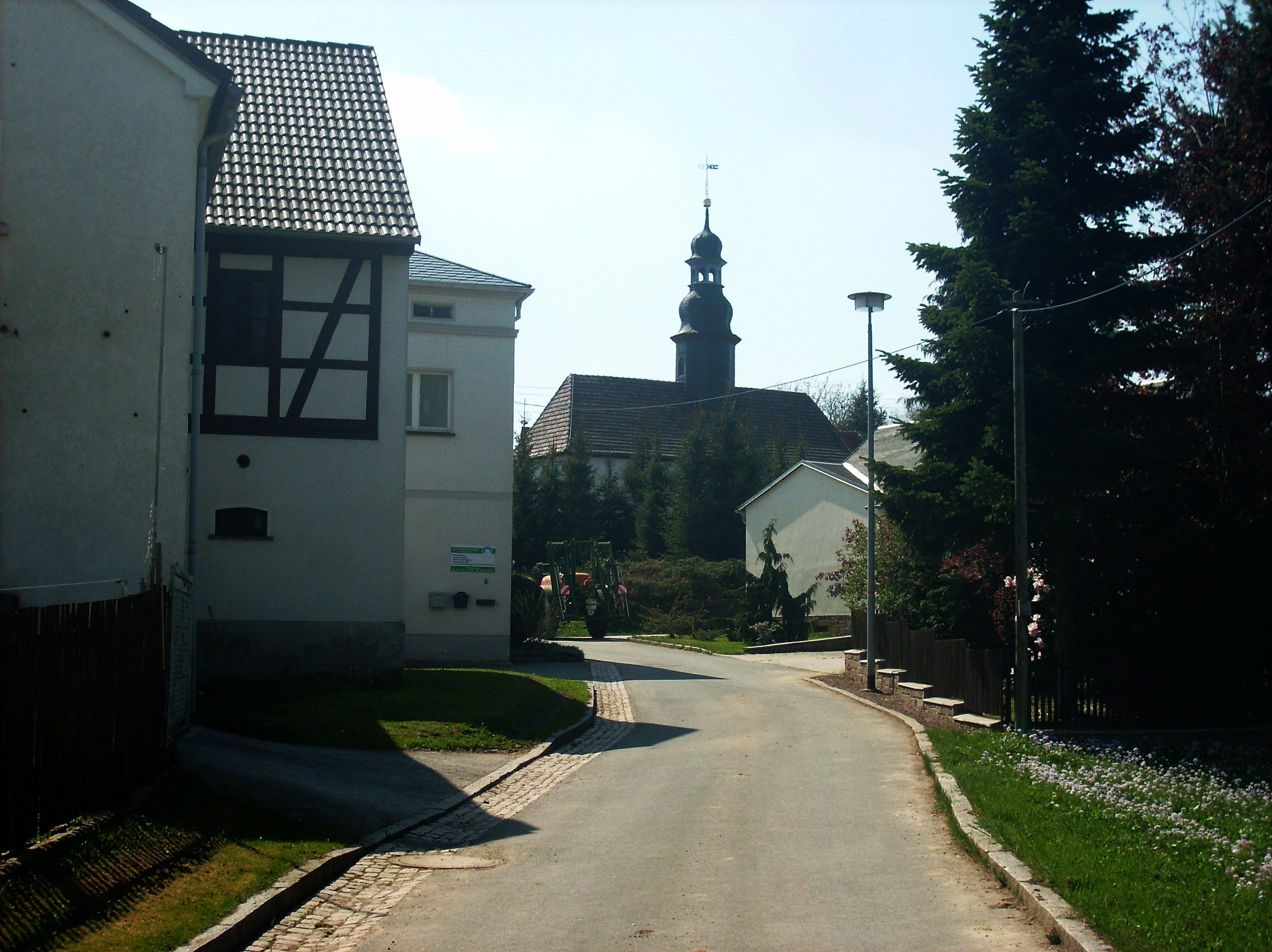 St. Martin's Church in Rußdorf (Crimmitschau, Zwickau district, Saxony)